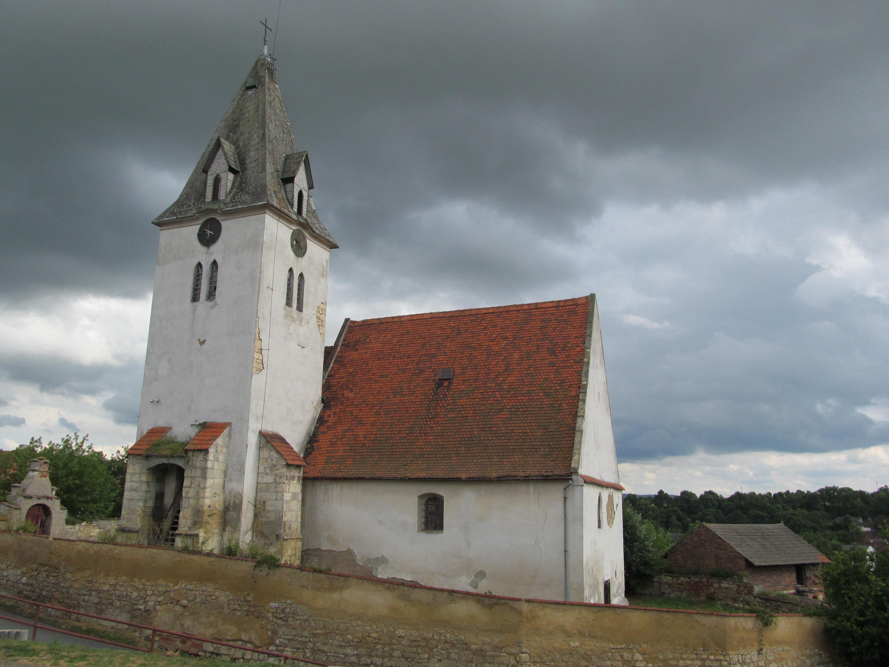 Church of Saint Michael in Bitozeves from North